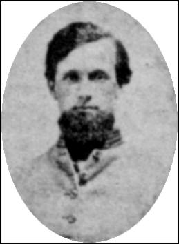 photo of Daniel Chevilette Govan (1829–1911)